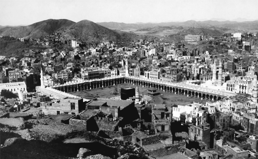 A bird’s eye view of Mecca and surrounding hillsides, August 1917. Photograph by Samuel M. Zwemer, National Geographic